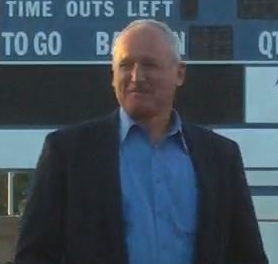 Geoff Vanderstock at the 2012 CCCAA State Championships